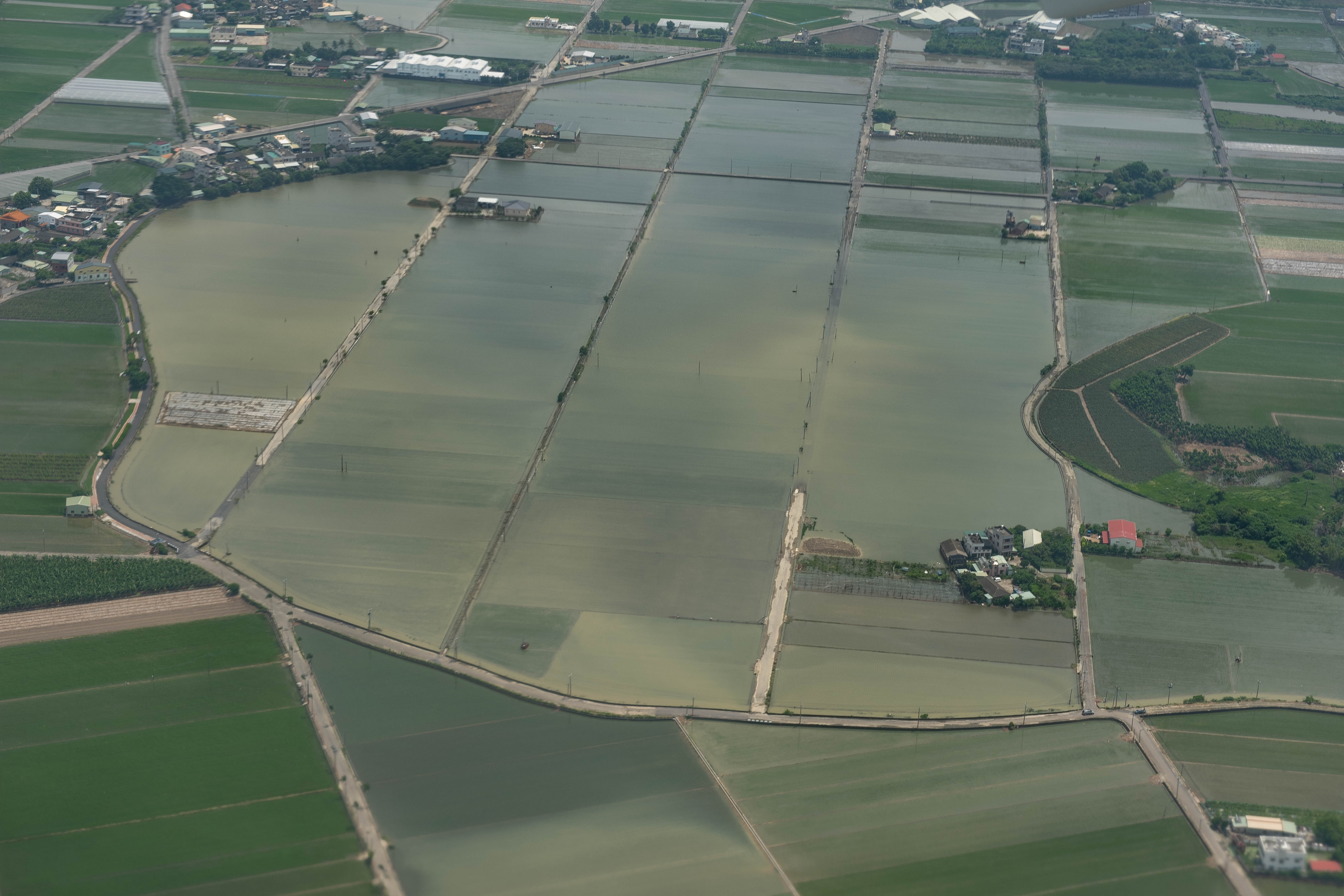 授權方式及範圍：中華民國總統府│政府網站資料開放宣告 Authorization Method & Scope: Office of the President, Republic of China (Taiwan) | Government Website Open Information Announcement